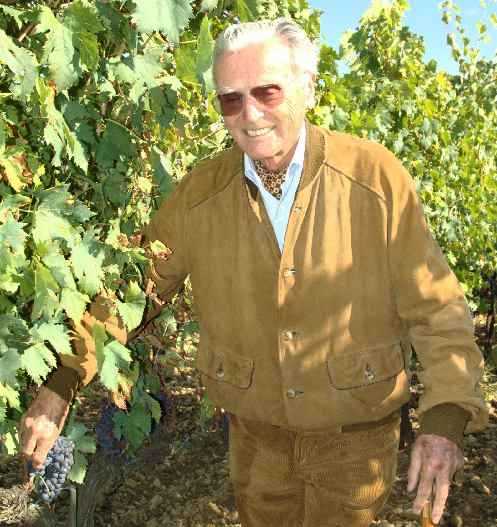 Franco Biondi Santi (January 11, 1922-April 8, 2013). Italian winemaker whose family invented Brunello di Montalcino.